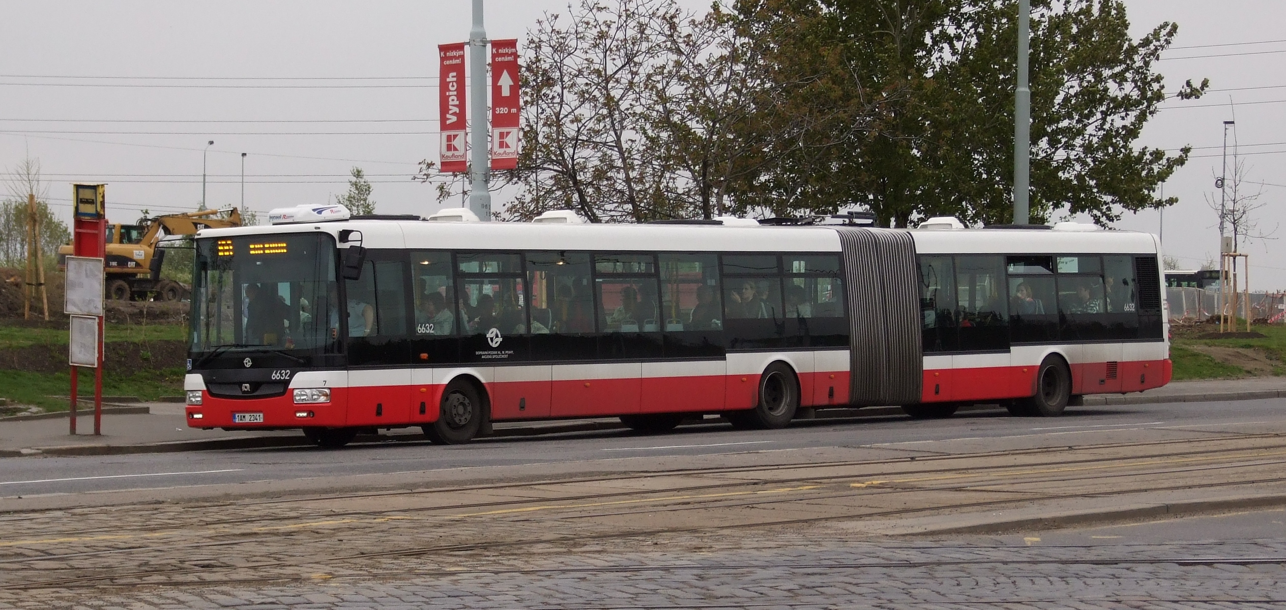 Bus SOR NB 18 arriving in Vypich bus stop, Prague, CZ